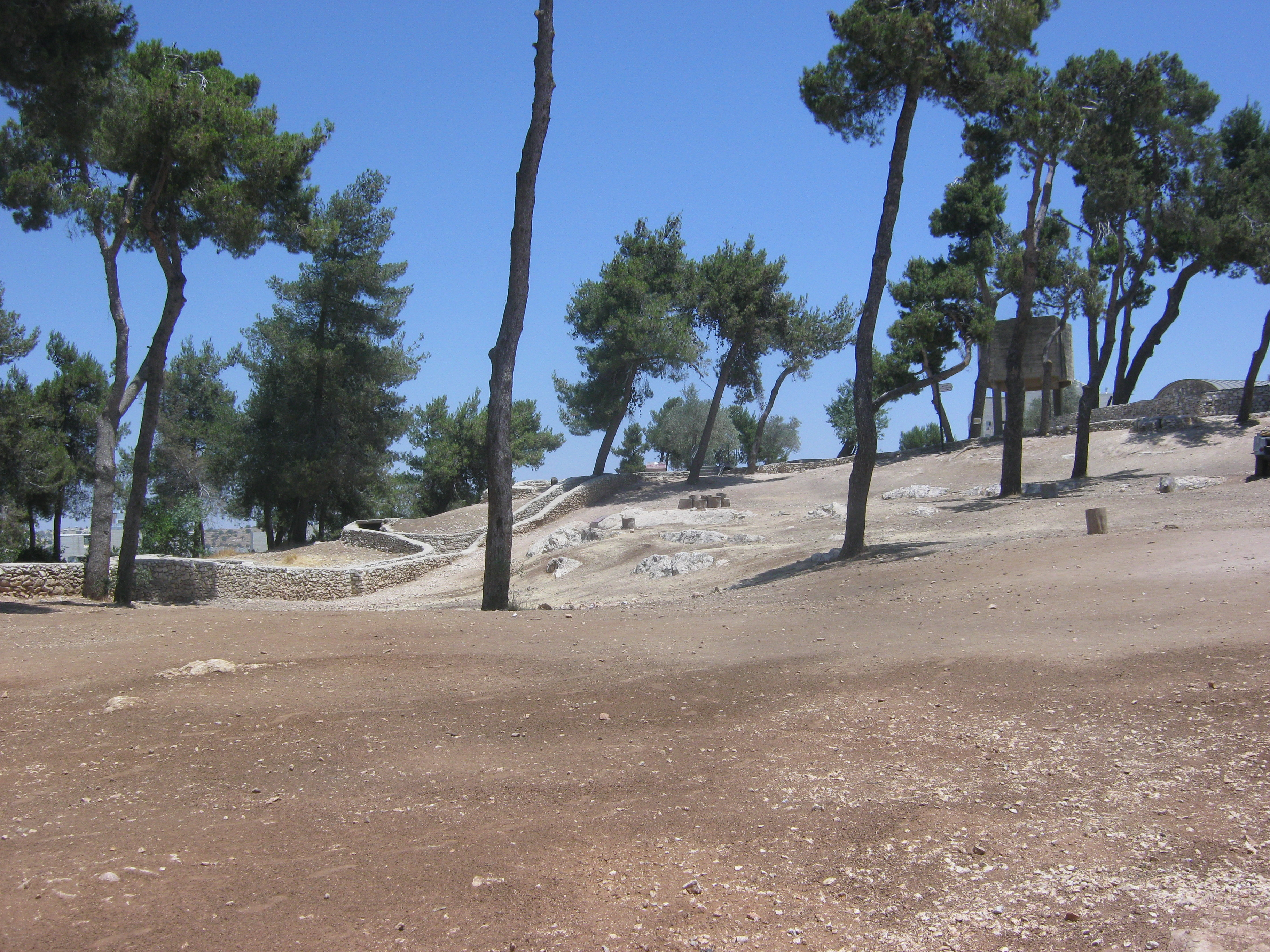 Ammunition Hill